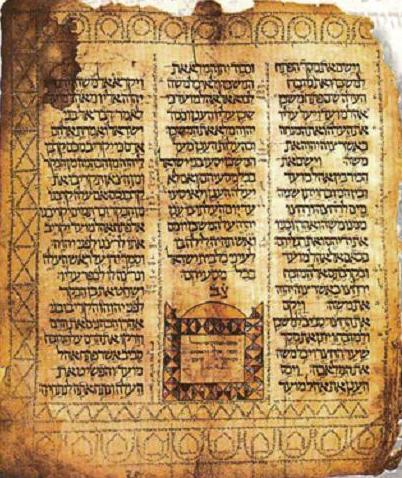 A page from the Lailashi Bible